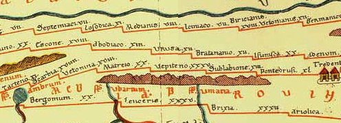 Part of the Roman road map Tabula Peutingeriana showing, among others, Vetonina (modern Innsbruck), Matreio (Matrei am Brenner) and Pontedrvsi (Bolzano).